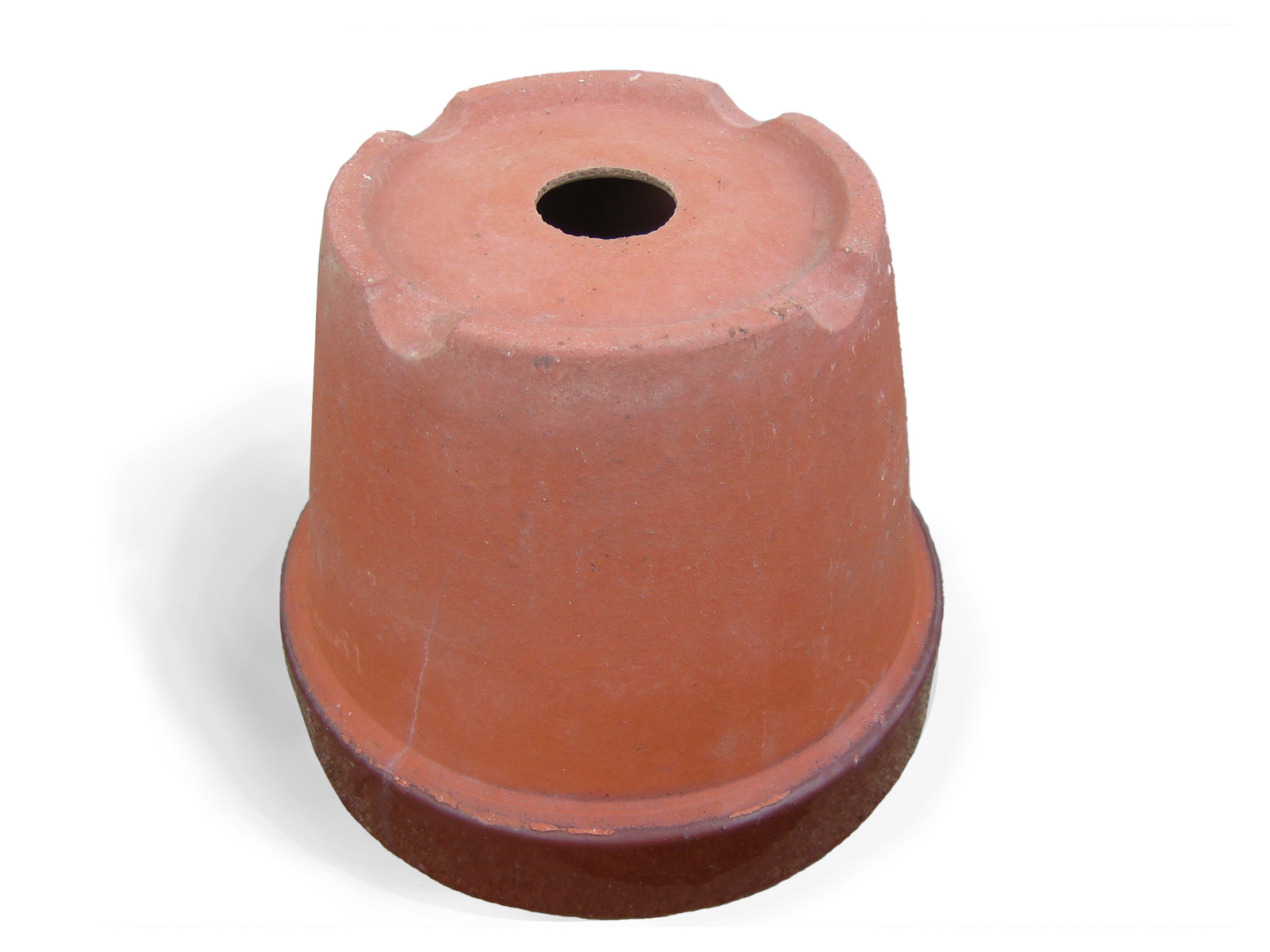 flowerpot